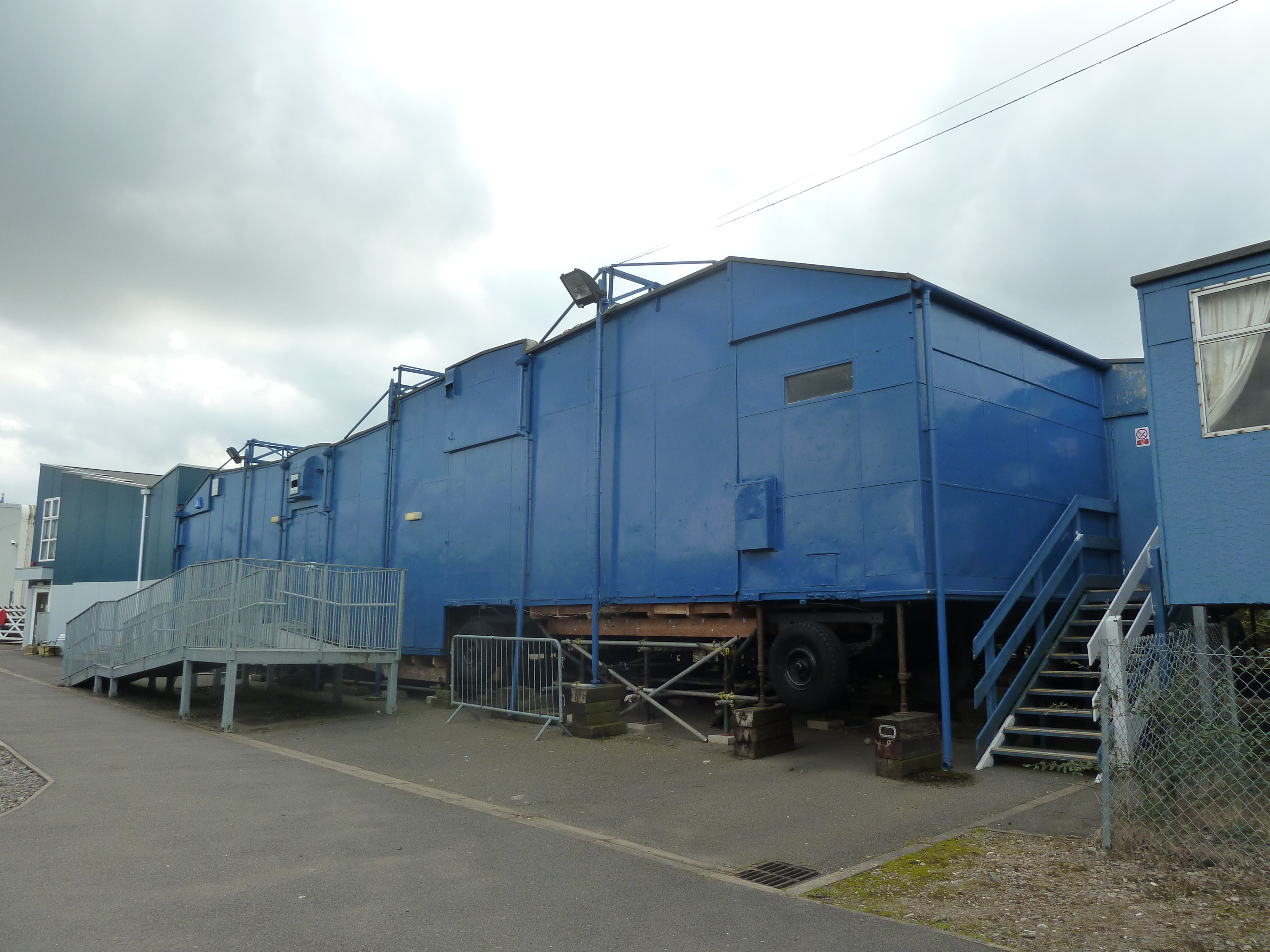 The "Blue Box" of the trailer-based mobile Century Theatre.